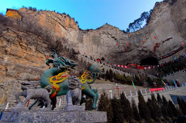 Mt Mian near Jiexiu, Shanxi, China.